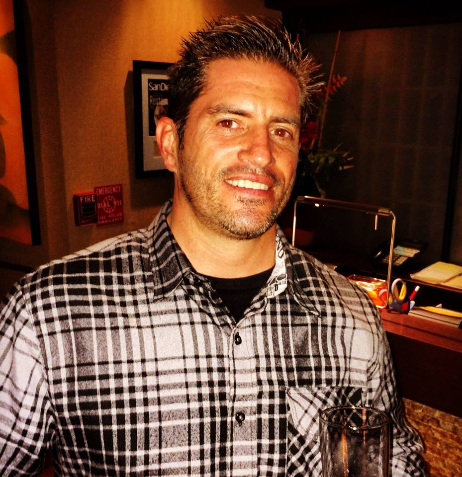 Portrait of Marco Almera